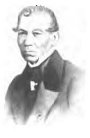 Portrait of the botanist W. M. Czerniajew